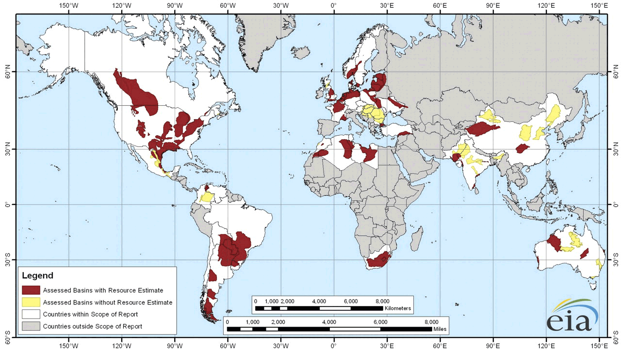 Map of major shale gas basis all over the world from the EIA report World Shale Gas Resources: An Initial Assessment of 14 Regions Outside the United States .